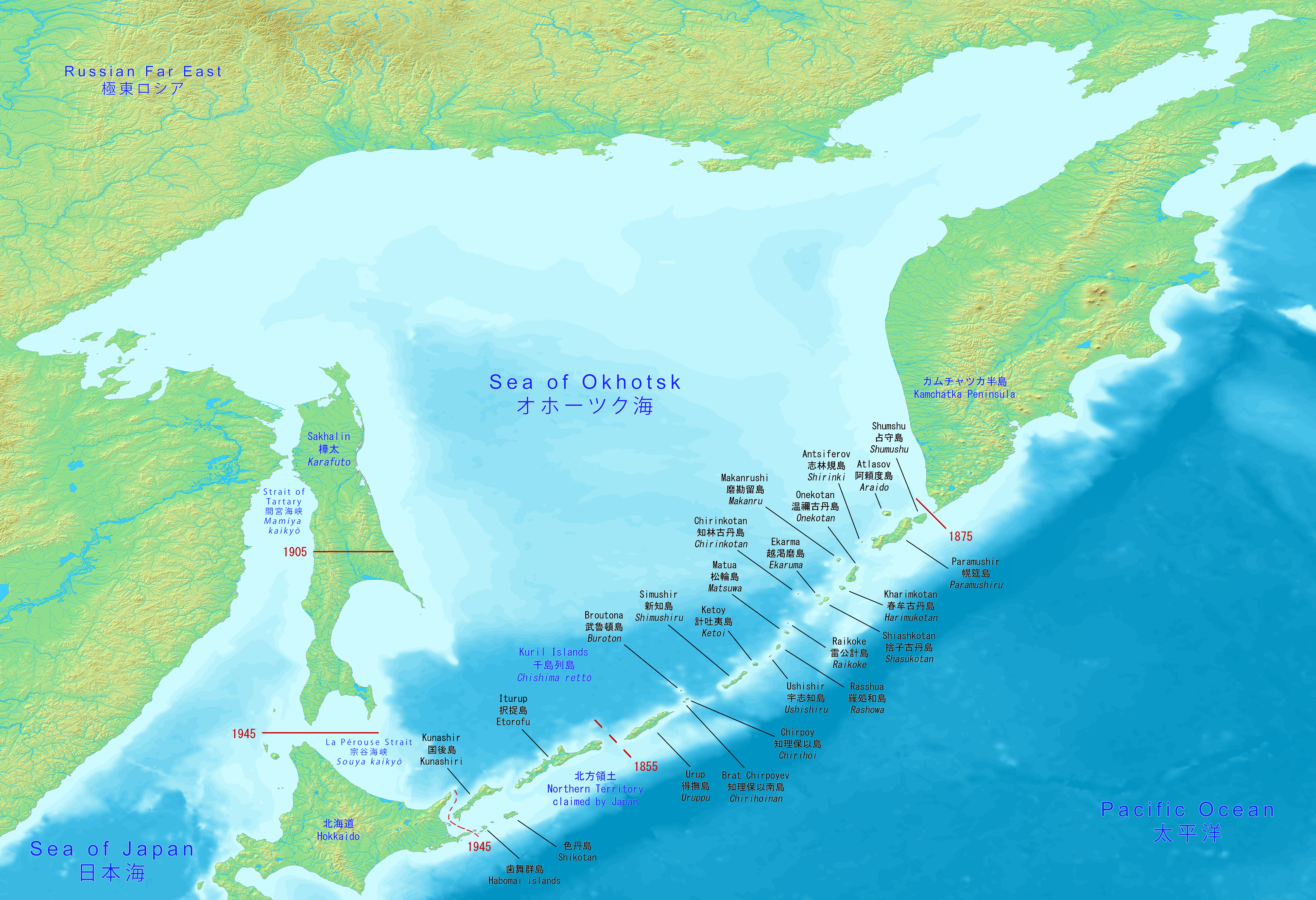 Big map has the full Sea of Okhotsk with Hokkaido, Kuril islands, Kamchatka peninsula and Sakhalin (Karafuto). It includes the Japanese and Russian names with English.